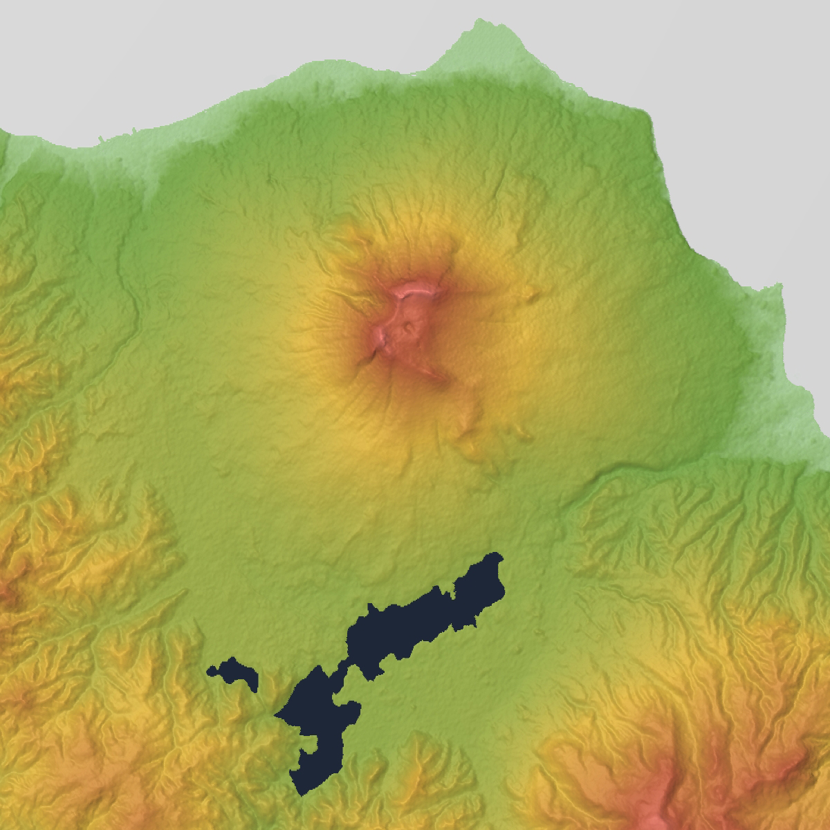 Hokkaido-Komagatake is a volcano in Hokkaido, Japan.